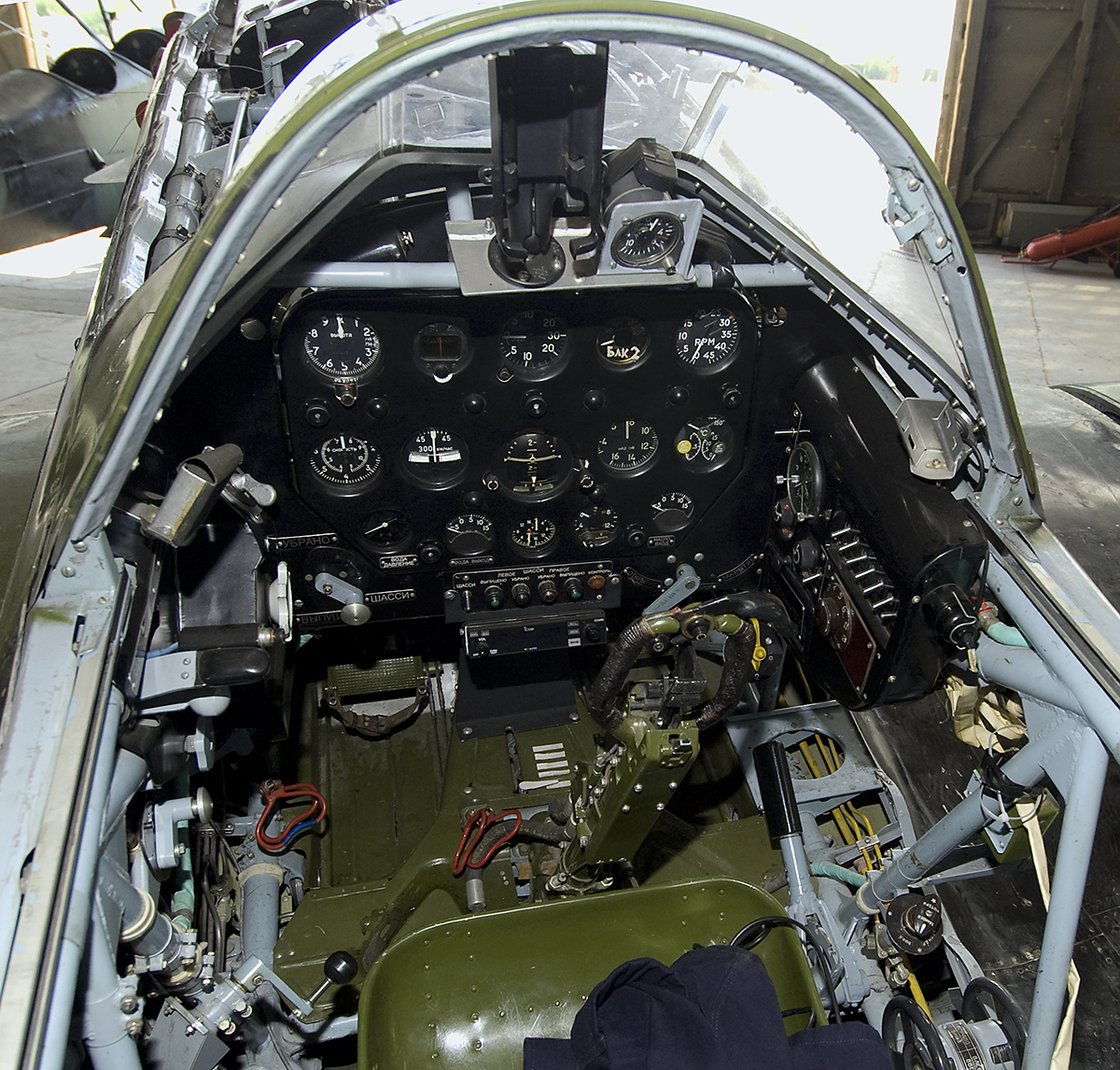 Mig-3(65).Cockpit